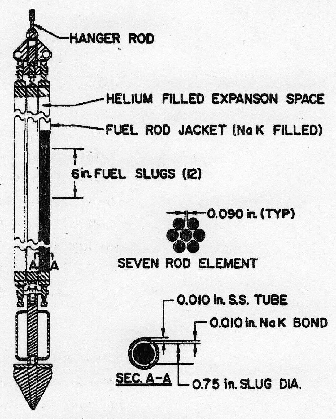 Typical fuel element from SRE reactor, 1957-1959. A different configuration was used from 1960-1964.